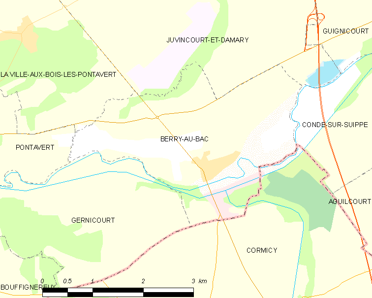 Map of French commune: Berry-au-Bac Map commune FR insee code 02073.png